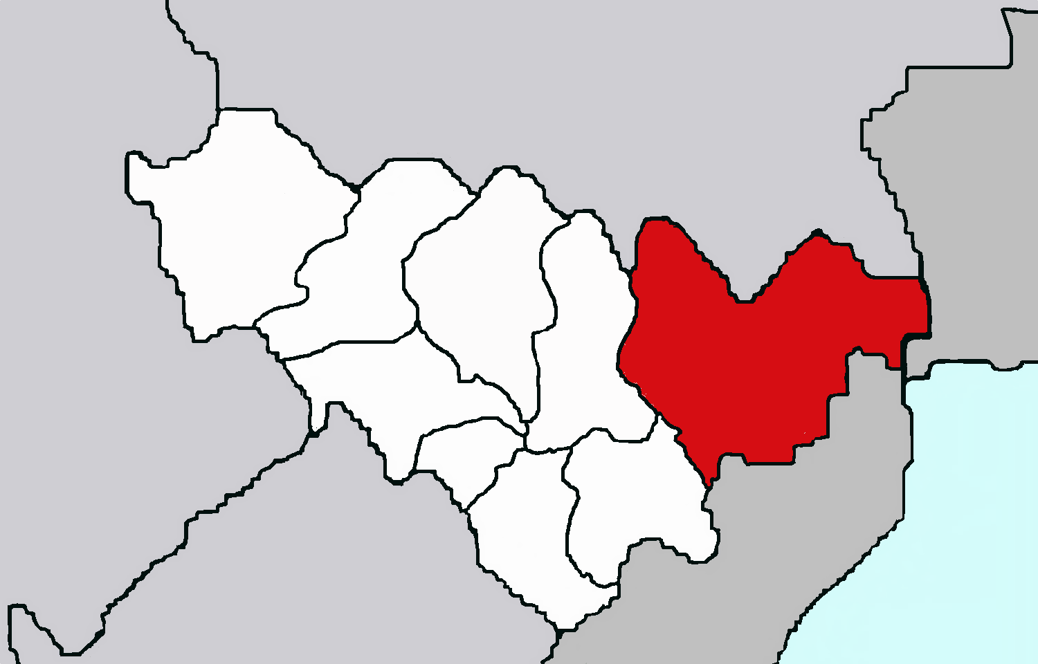 Maps of Jilin Province , China